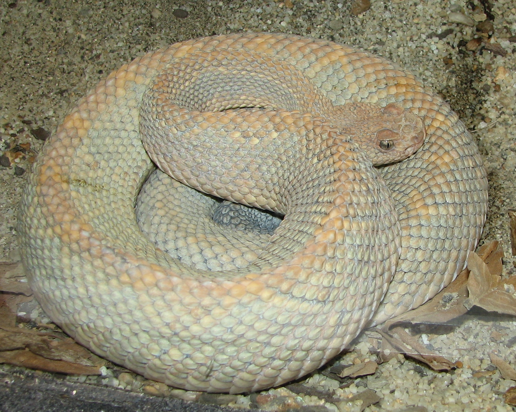 Aruba Island Rattle Snake - Crotalus durissus unicolor